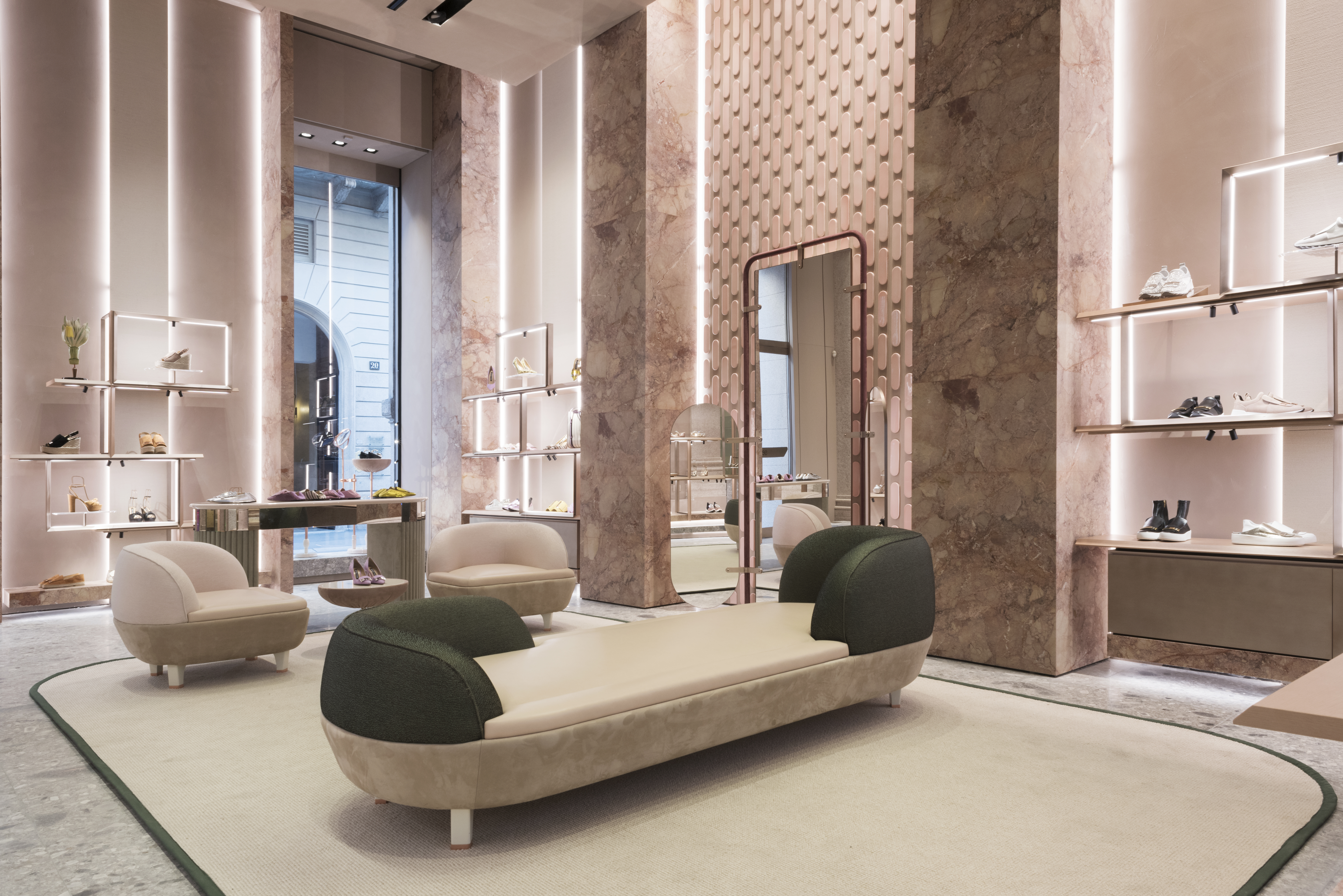 New store concept, 2017